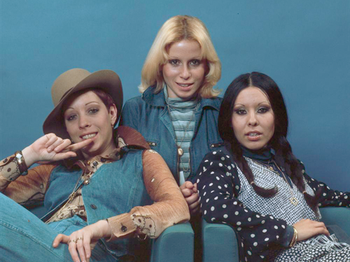 Portrait of Chocolat Menta Mastik at the day of the Eurovision Song Contest 1976